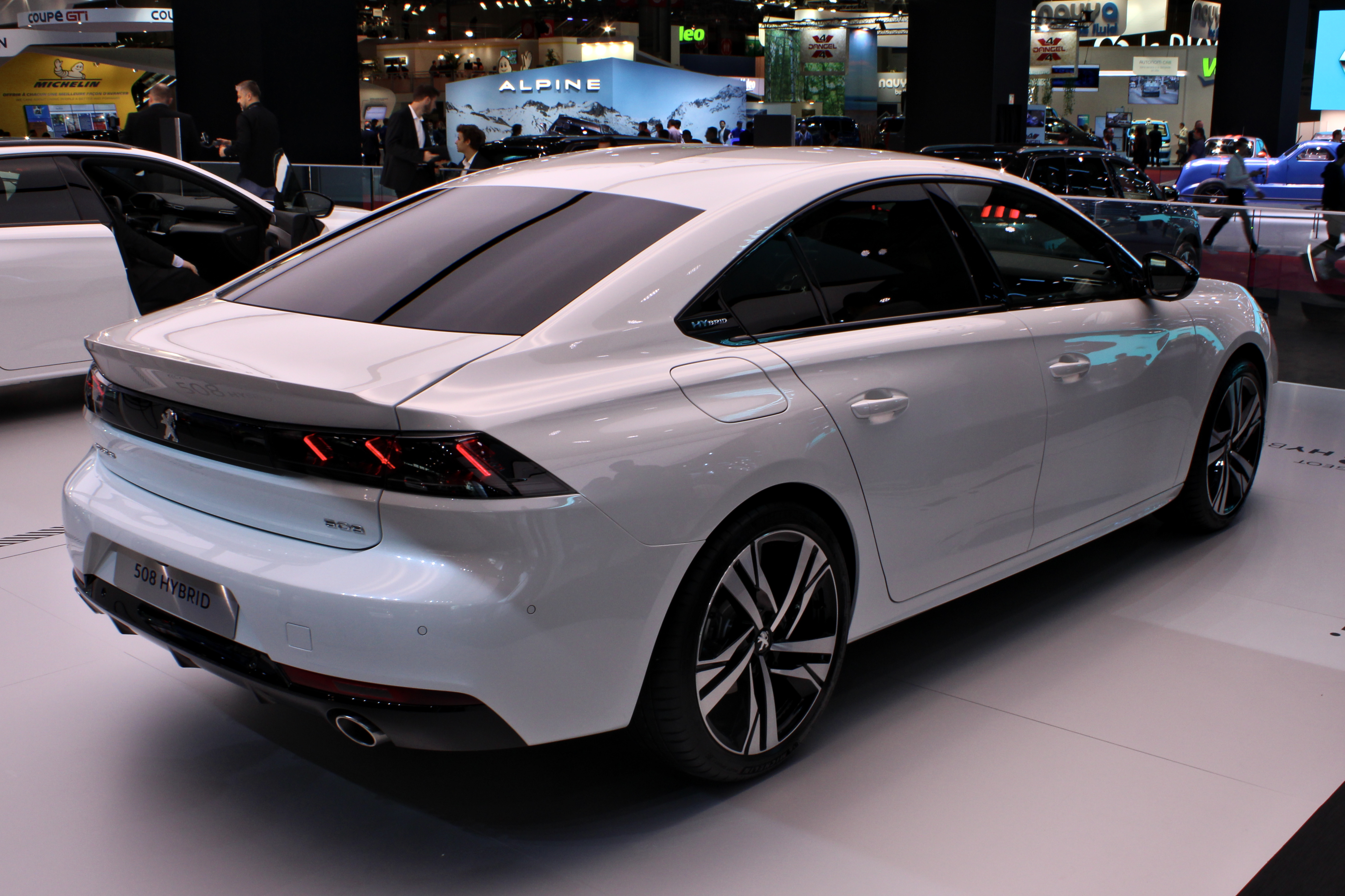 Peugeot 508 Hybrid at Paris Motor Show 2018